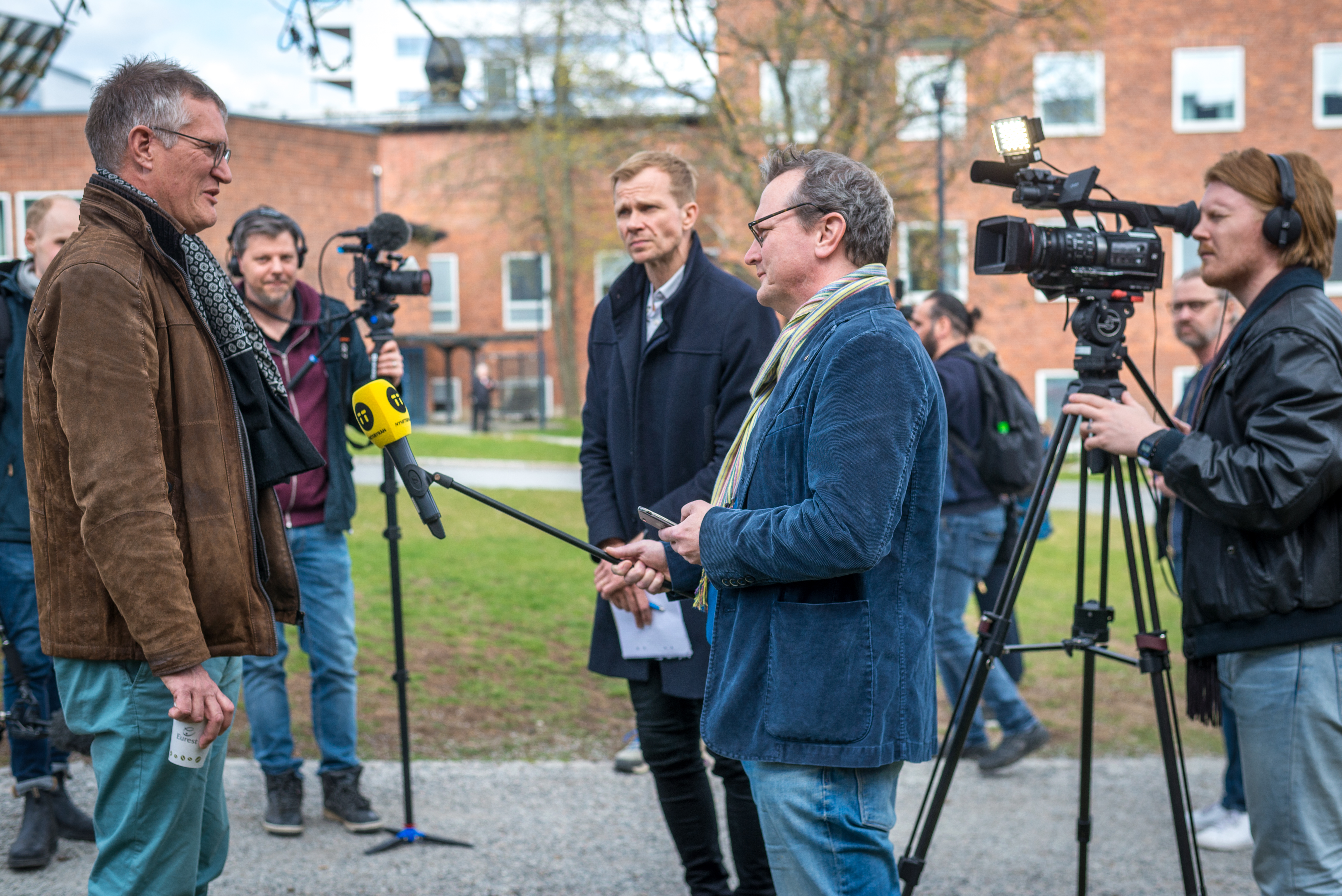 Anders Tegnell during the daily press conference outside the Karolinska Institute in Stockholm, Sweden.